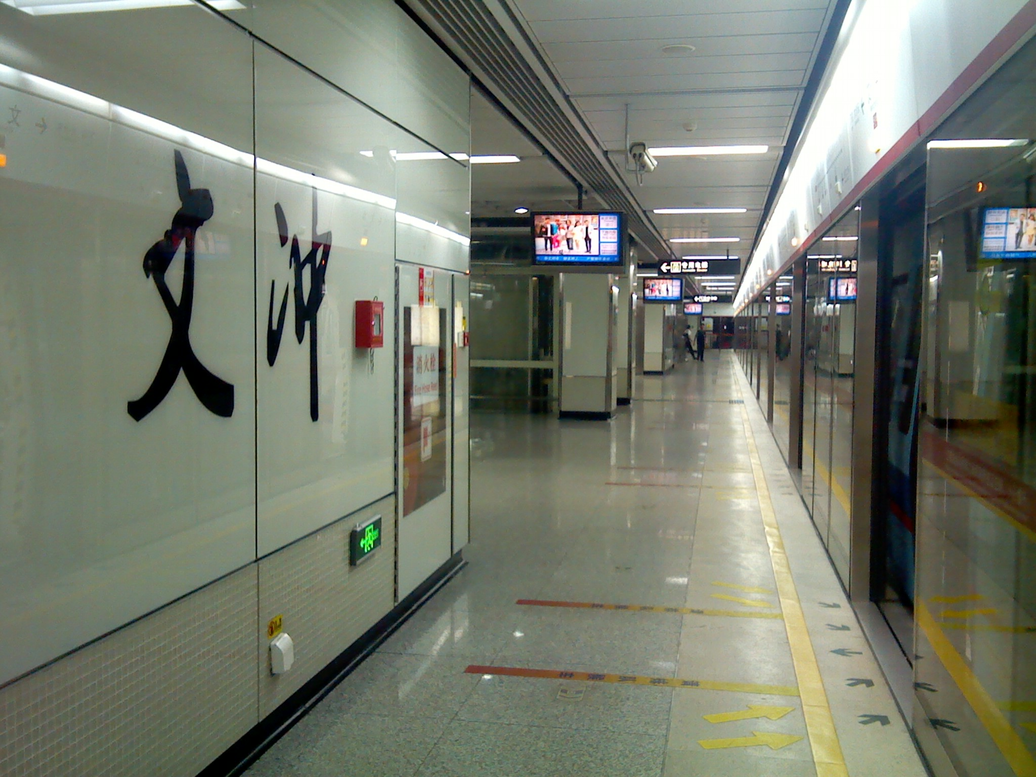 车站月台（滘口方向）